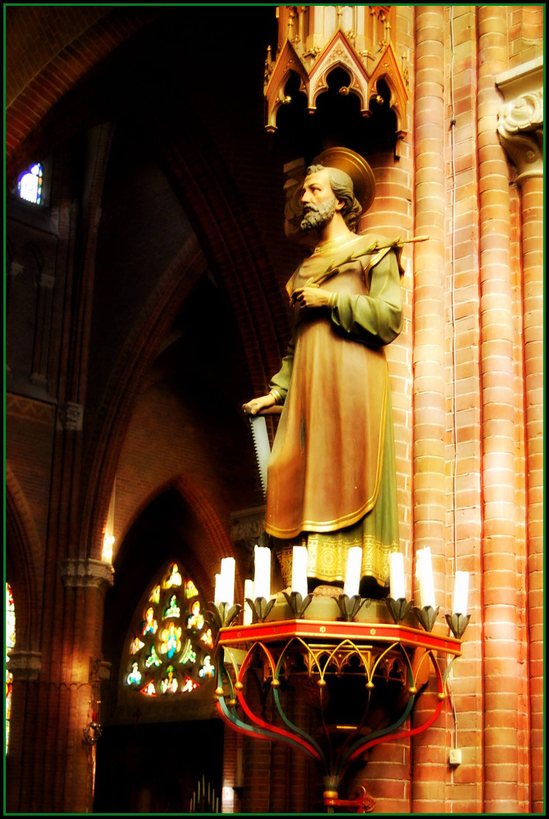 Saint Bonifacius Church Leeuwarden, Saint Joseph statue